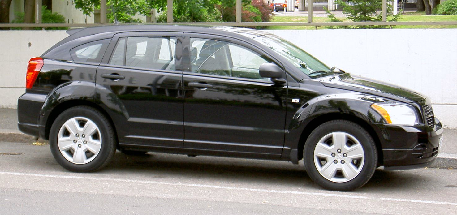 Dodge Caliber